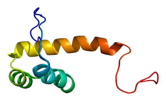 Structure of the LHX2 protein. Based on PyMOL rendering of PDB 2dmq.